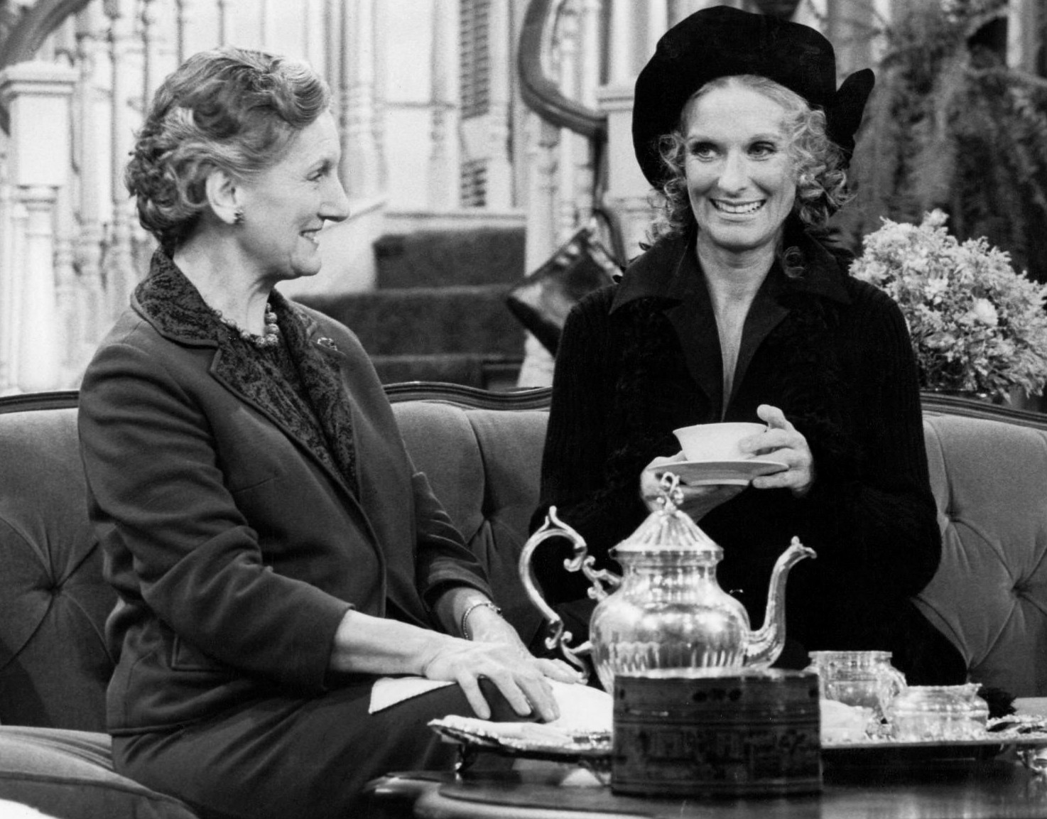 Publicity photo of Phyllis Lindstrom (Cloris Leachman) and her mother in law Audrey Dexter (Jane Rose) from the television program Phyllis.